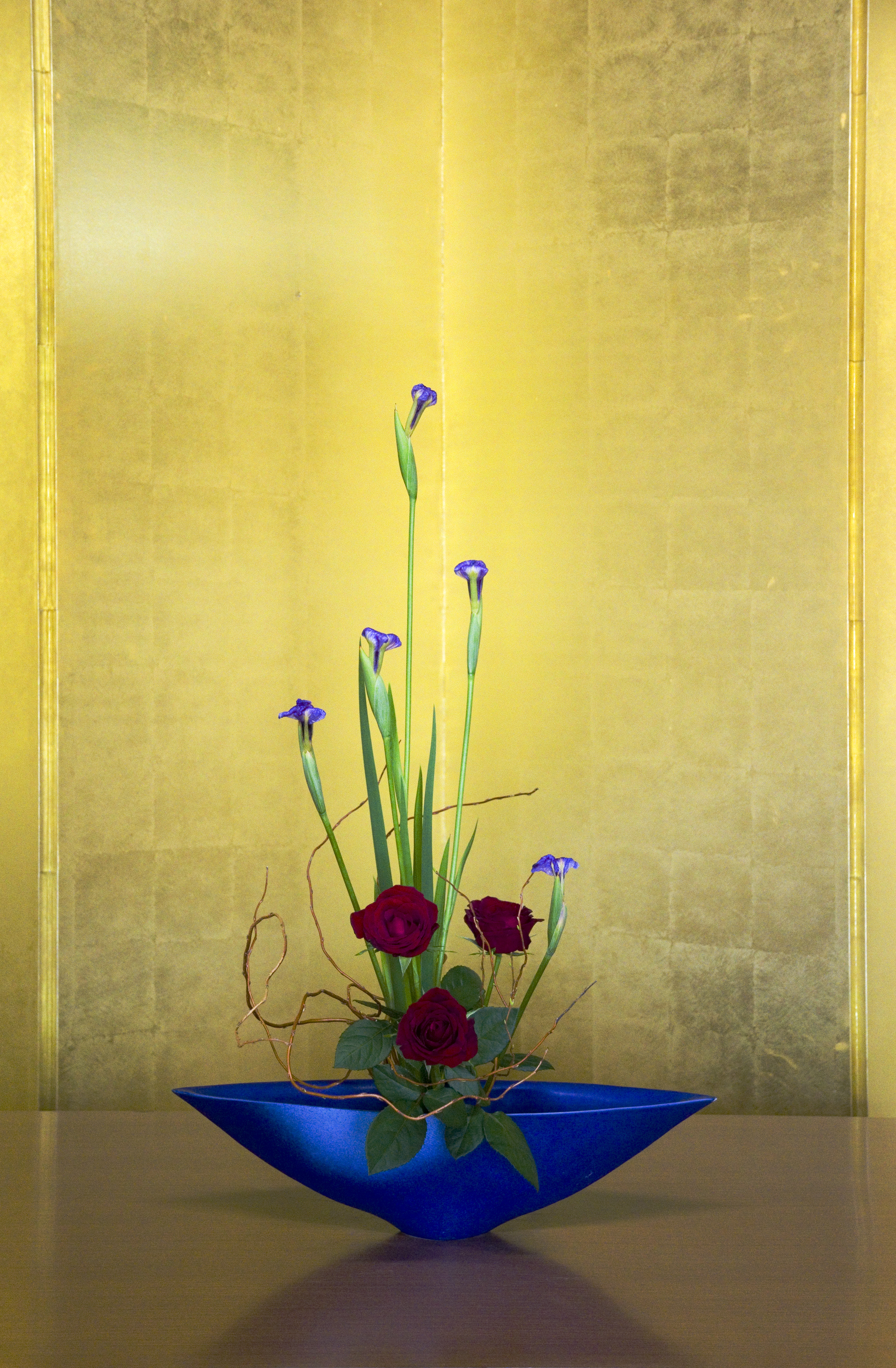 Ikebana with 5 Irises and 3 Roses; exhibited in Kyoto